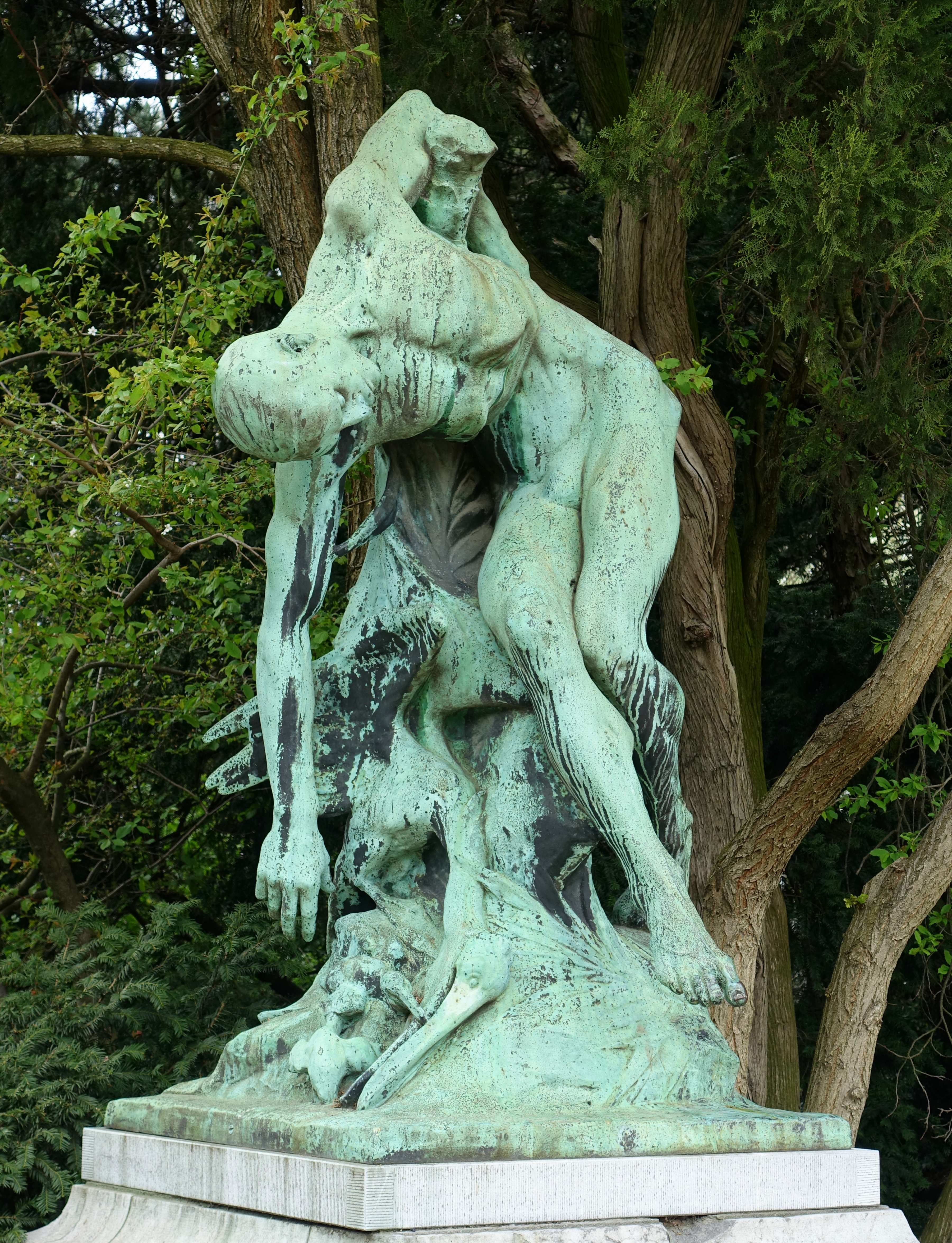 Le Palmier by Victor De Haen - Botanical Garden of Brussels - Brussels, Belgium. This work is in the public domain because the sculptor died more than 70 years ago.